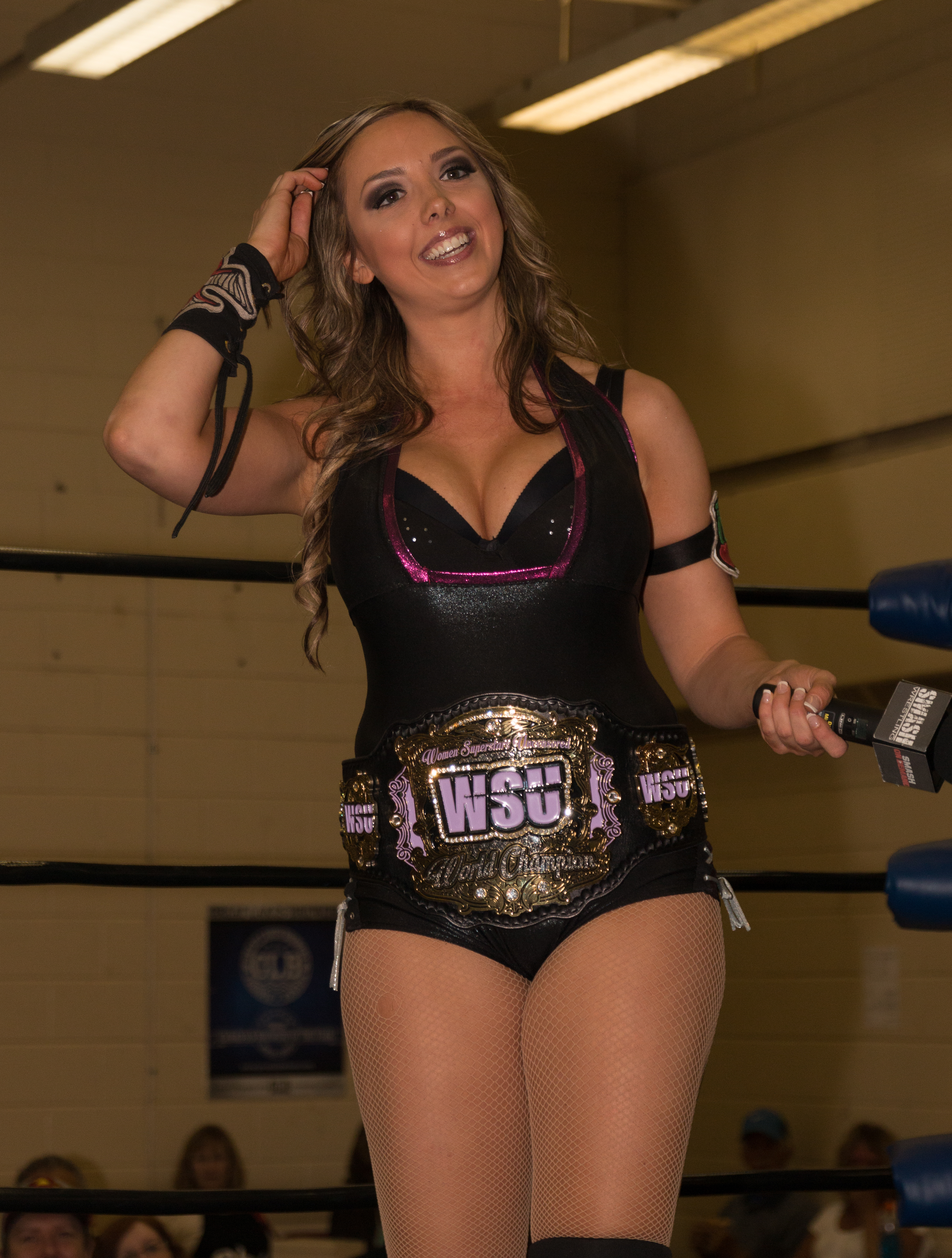 Cherry Bomb with the WSU championship belt, at Smash Wrestling's Give Divas a Chance show in Etobicoke, ON